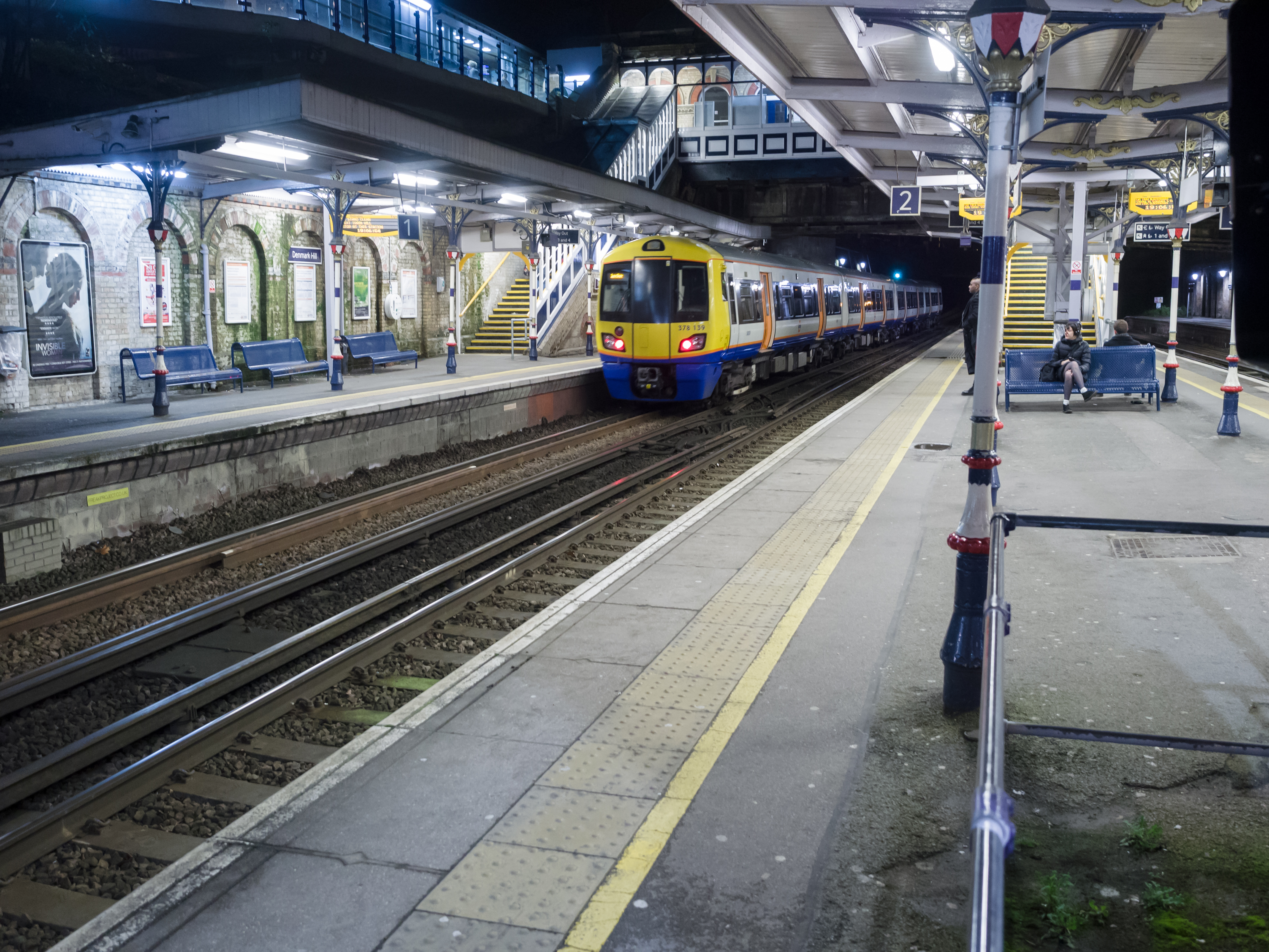 London Overground Class 378 departing